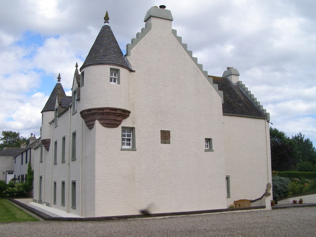 Monboddo House The original family home of James Burnett, Lord Monboddo, the noted 18th century Scottish Enlightenment philosopher and jurist.